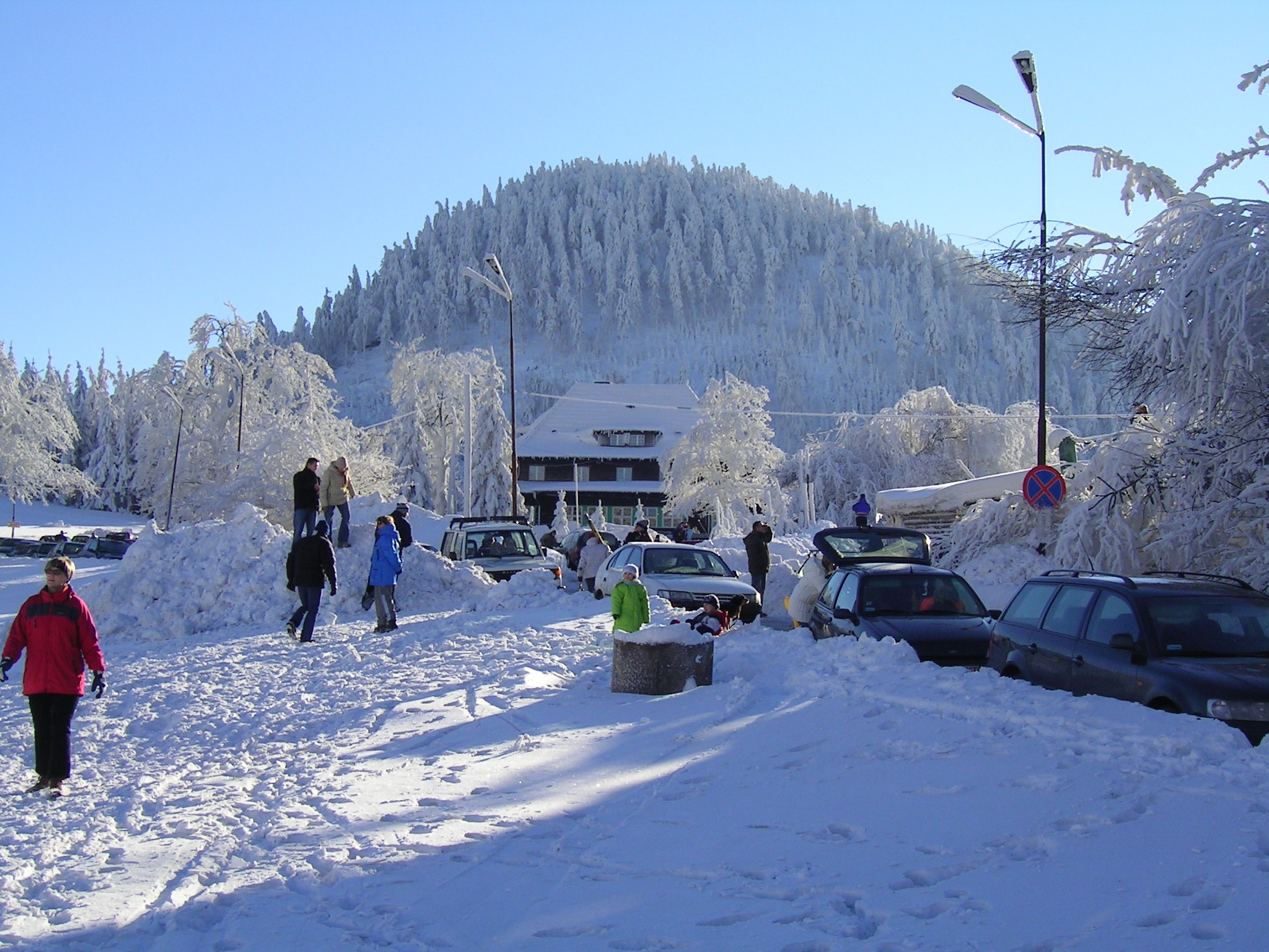 Mount Waligóra in the Góry Kamienne Mountains, Sudetes, Poland